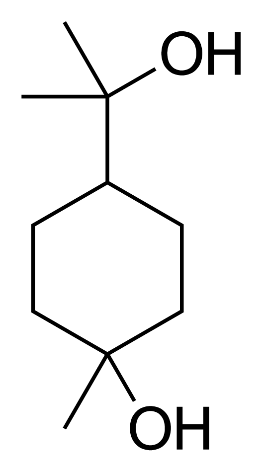 Structure of terpin